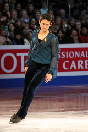 Patrick Chan (CAN) at the 2009 World Figure Skating Championshpis exhibition.